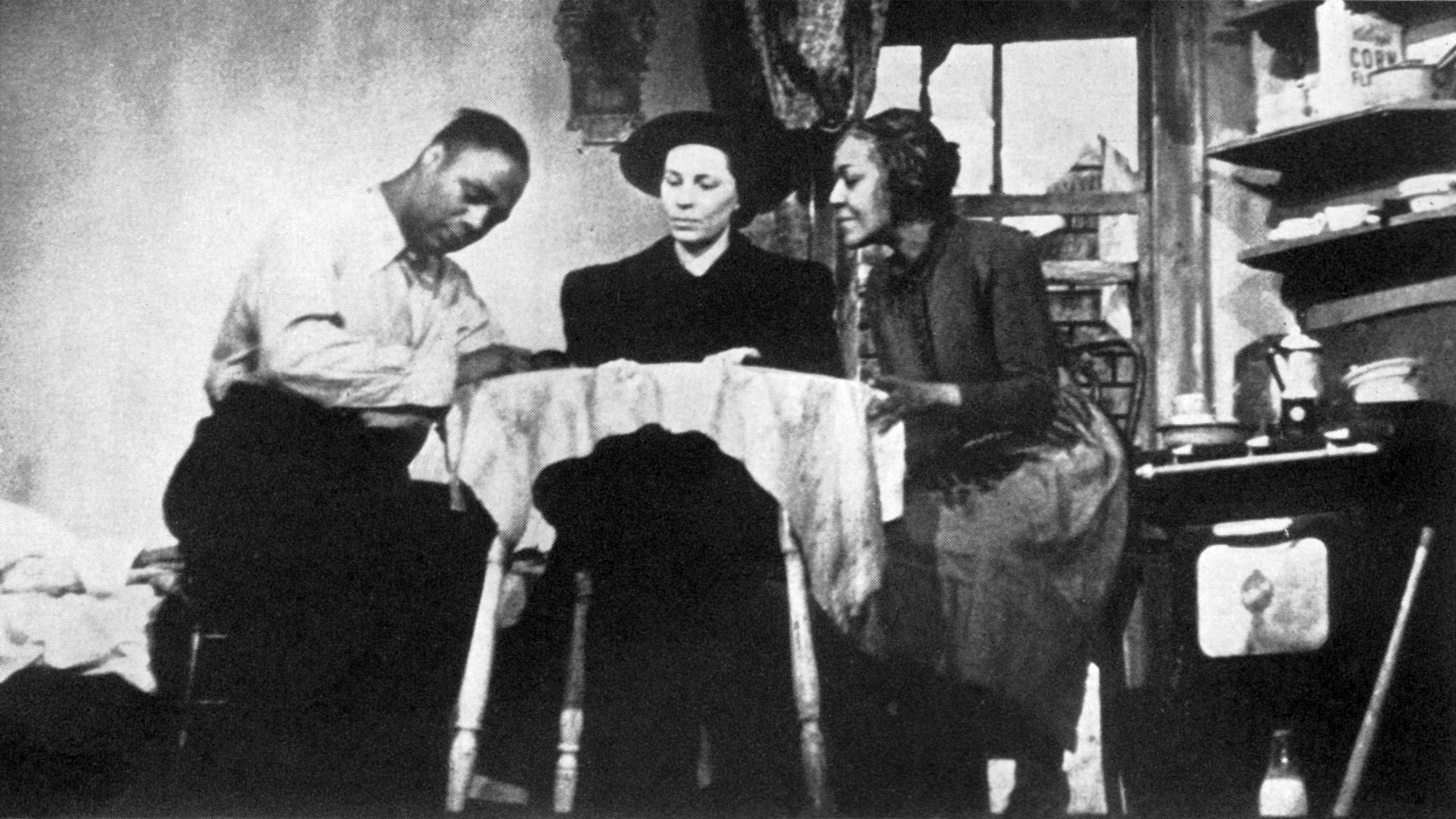 Promotional still for the original Broadway production of Native Son Scene I; from left: Canada Lee (Bigger Thomas), Eileen Burns (Miss Emmett), Evelyn Ellis (Hannah Thomas)